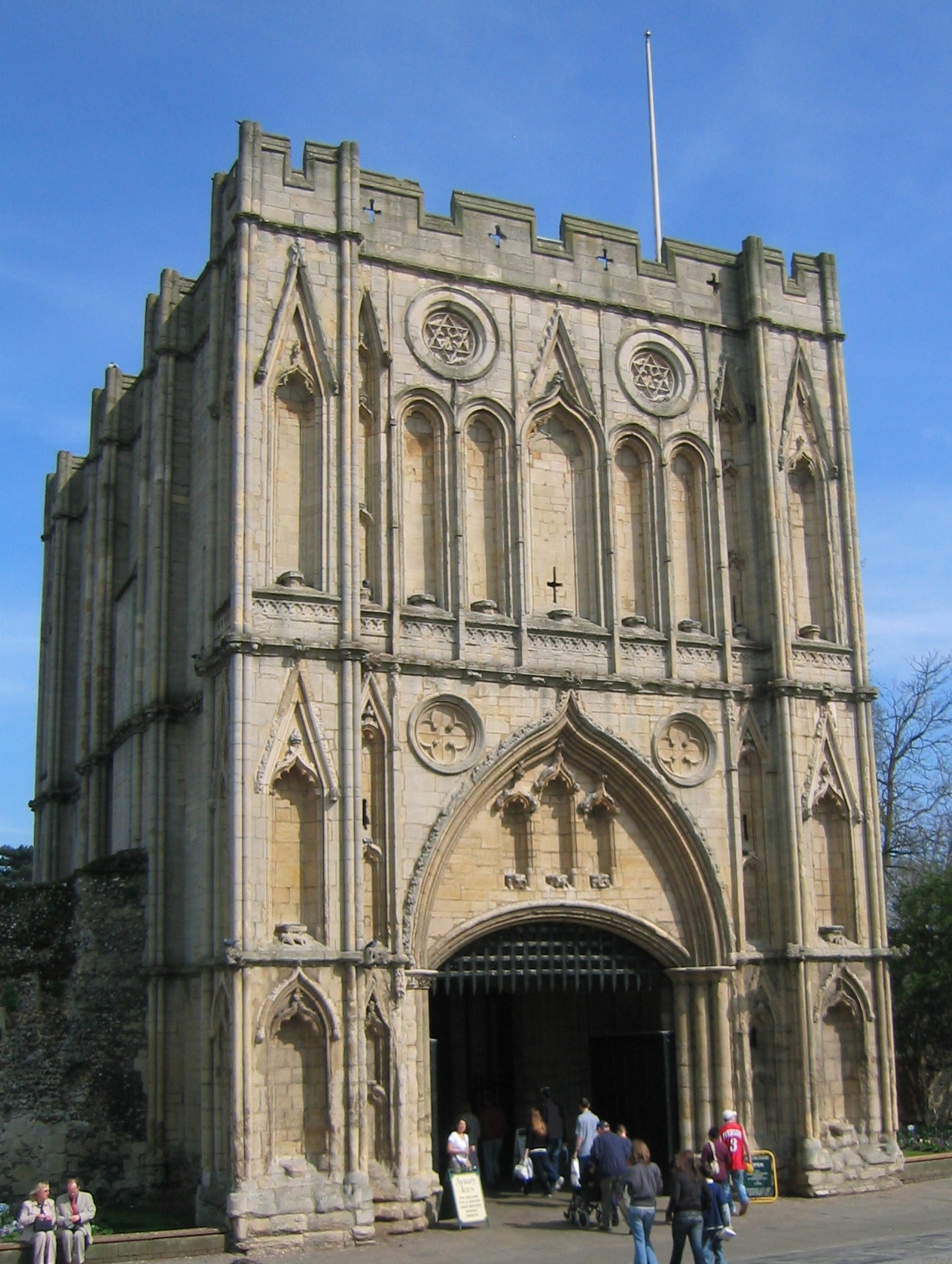 The Abbeygate in Bury St Edmunds that I took on a reasonably sunny day in April 2006.